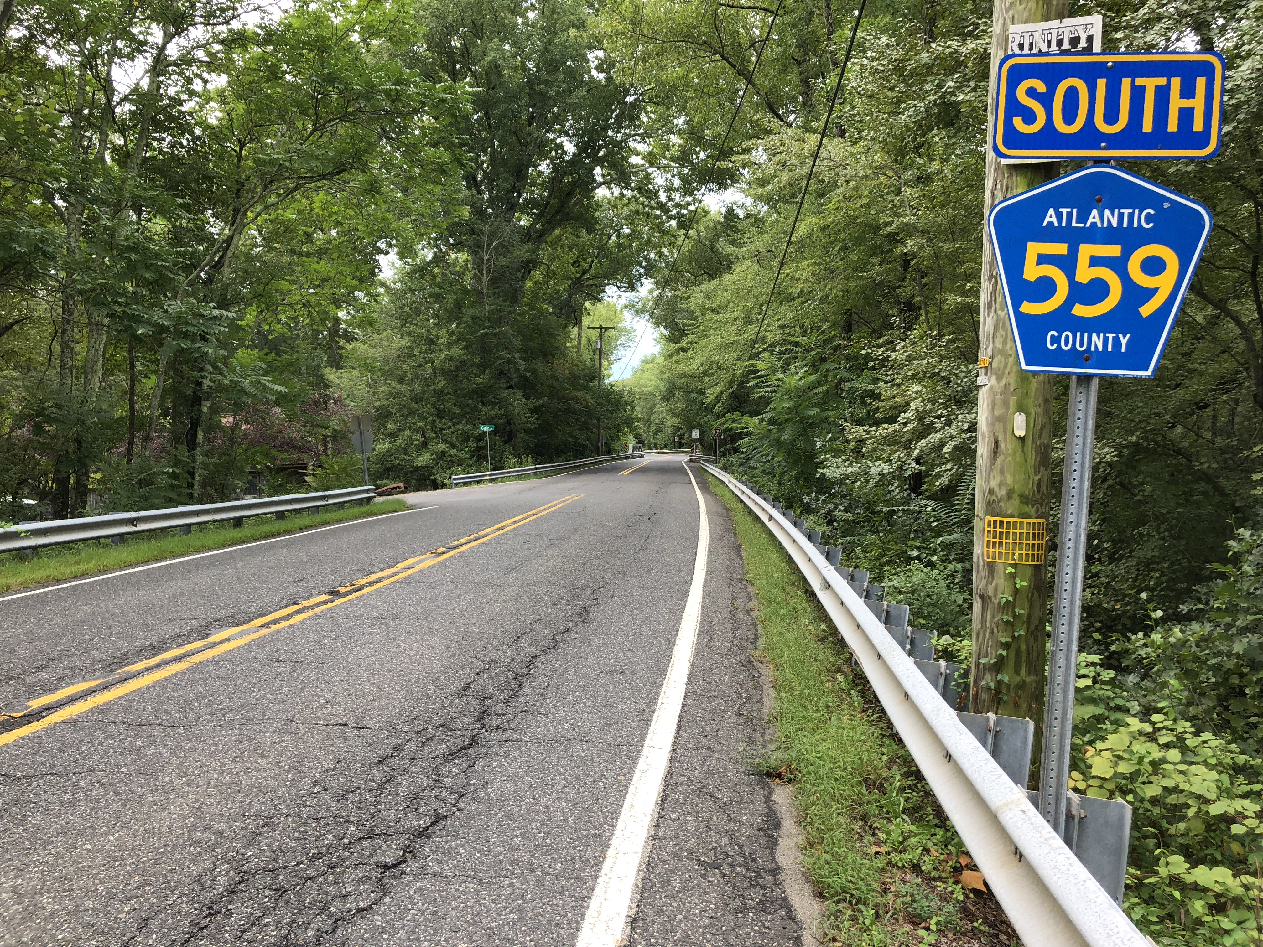 View south along Atlantic County Route 559 (Weymouth Road) just south of Atlantic County Route 623 (Elwood Road) in Hamilton Township, Atlantic County, New Jersey